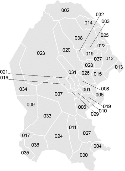 Map of the Municipalties of the State of Coahuila, México.